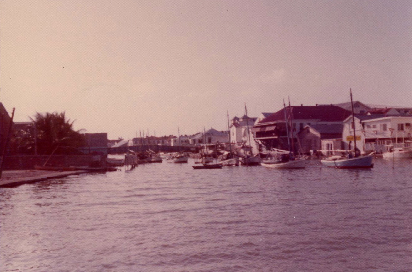 Belize City, 1975. View along Haulover Creek.